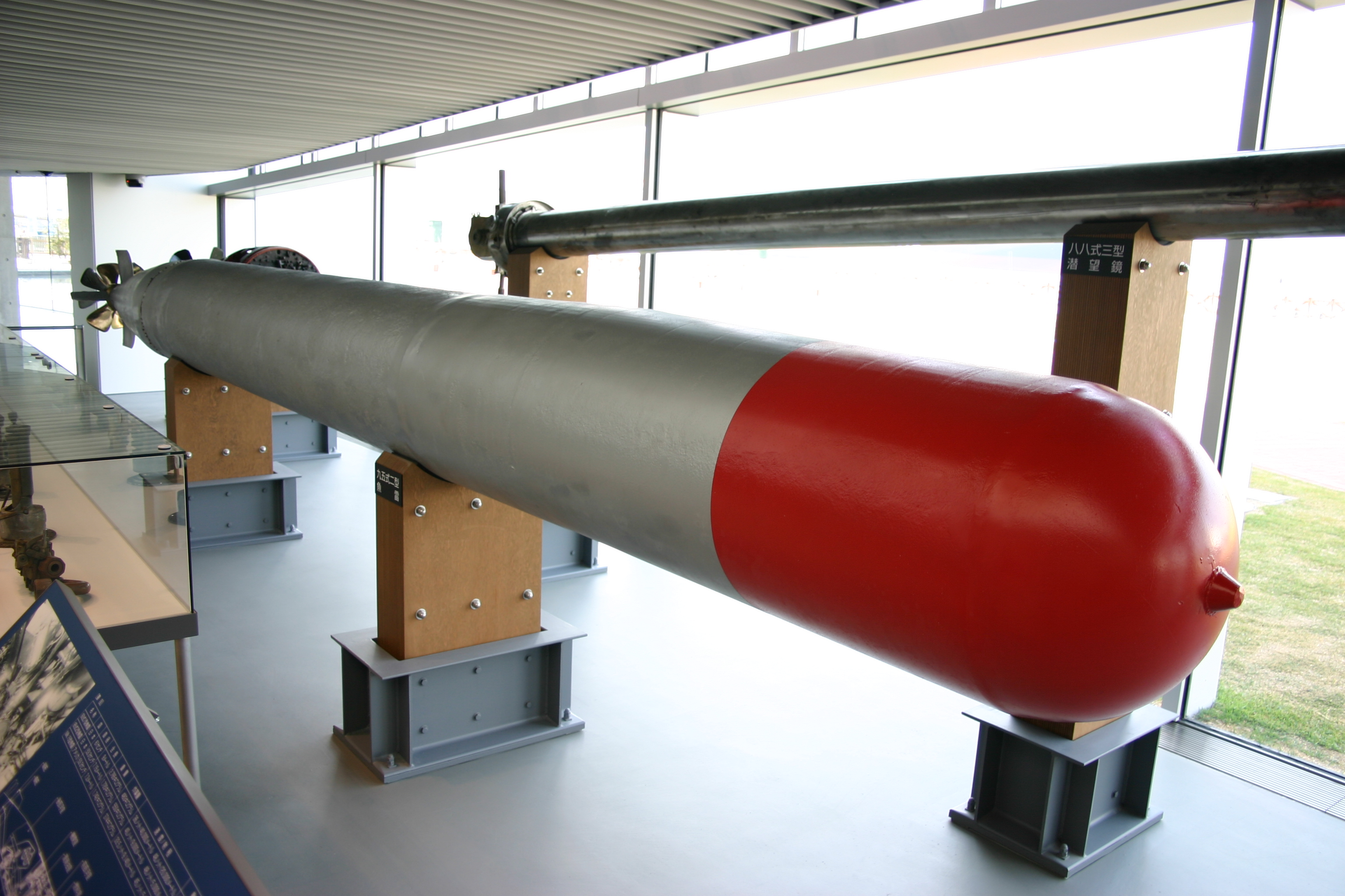 Type 95 torpedo.For submarine torpedo that compressed oxygen gas with an oxidizing agent.